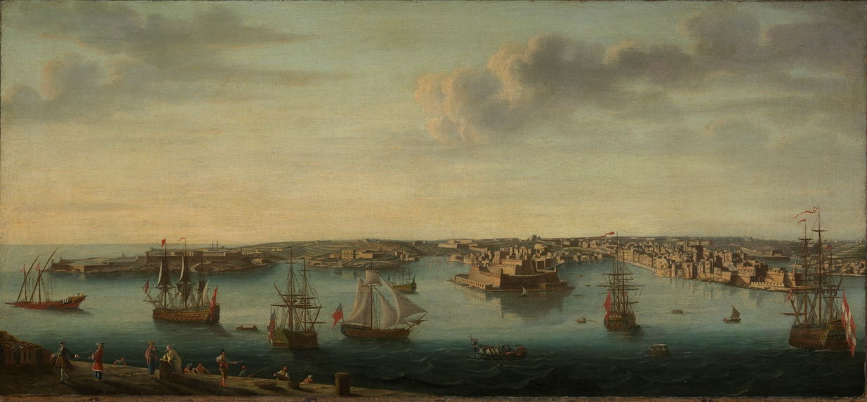 Shipping in Grand Harbour, Valletta, Malta